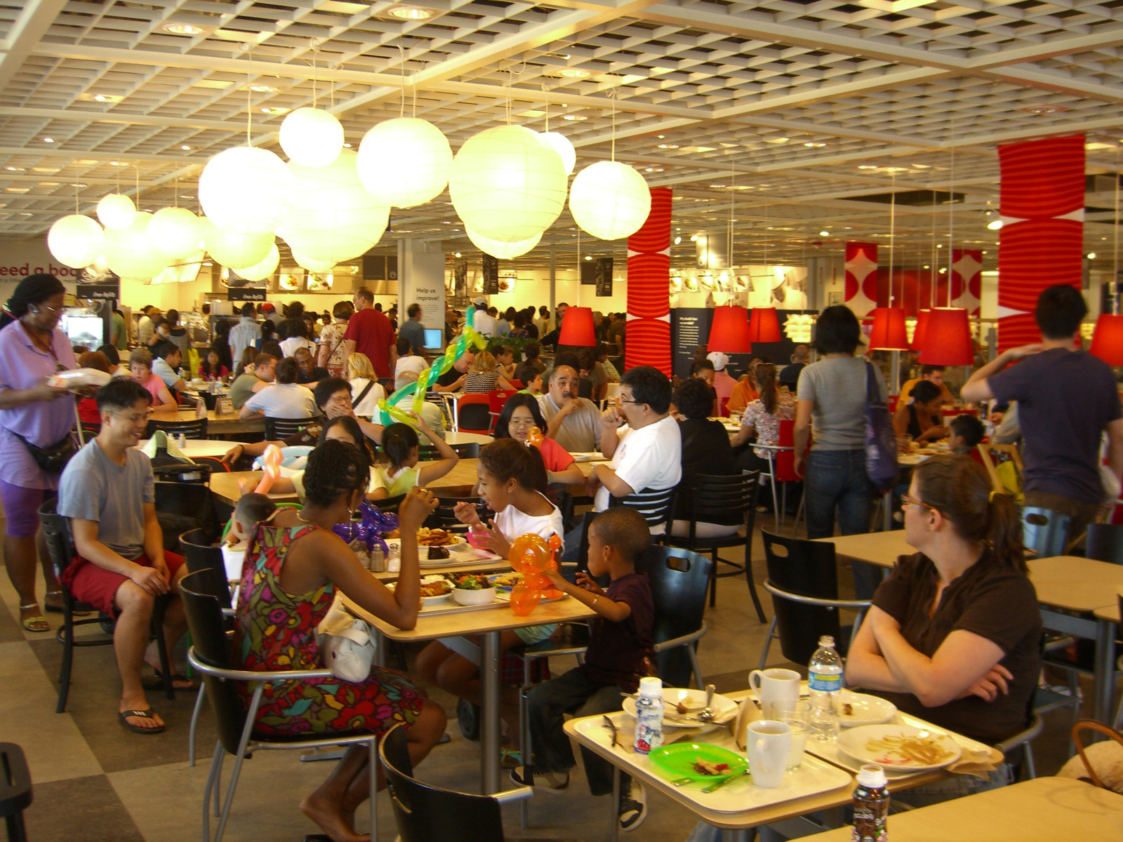 The cafeteria of the Ikea store in Red Hook, Brooklyn.